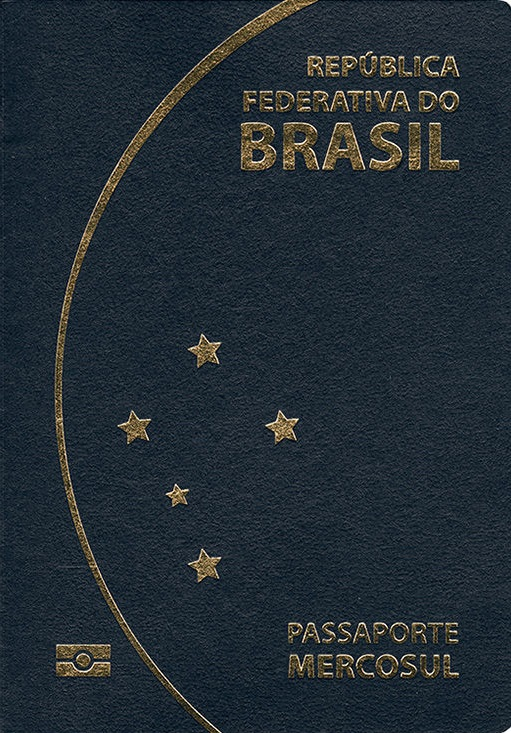 Passport of Brazil (2015)